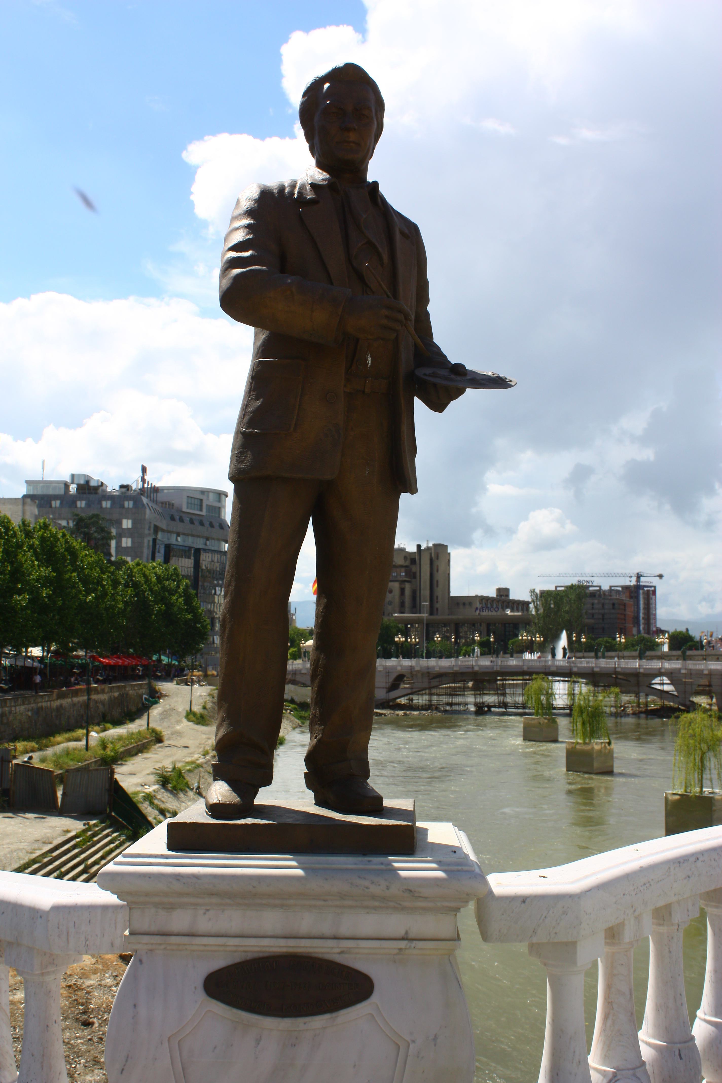 Sculpture od the Bridge of Arts in Skopje, Macedonia This image is uploaded as part of the picture contest Wiki Loves Cultural Heritage in Macedonia 2013. English | македонски | +/−